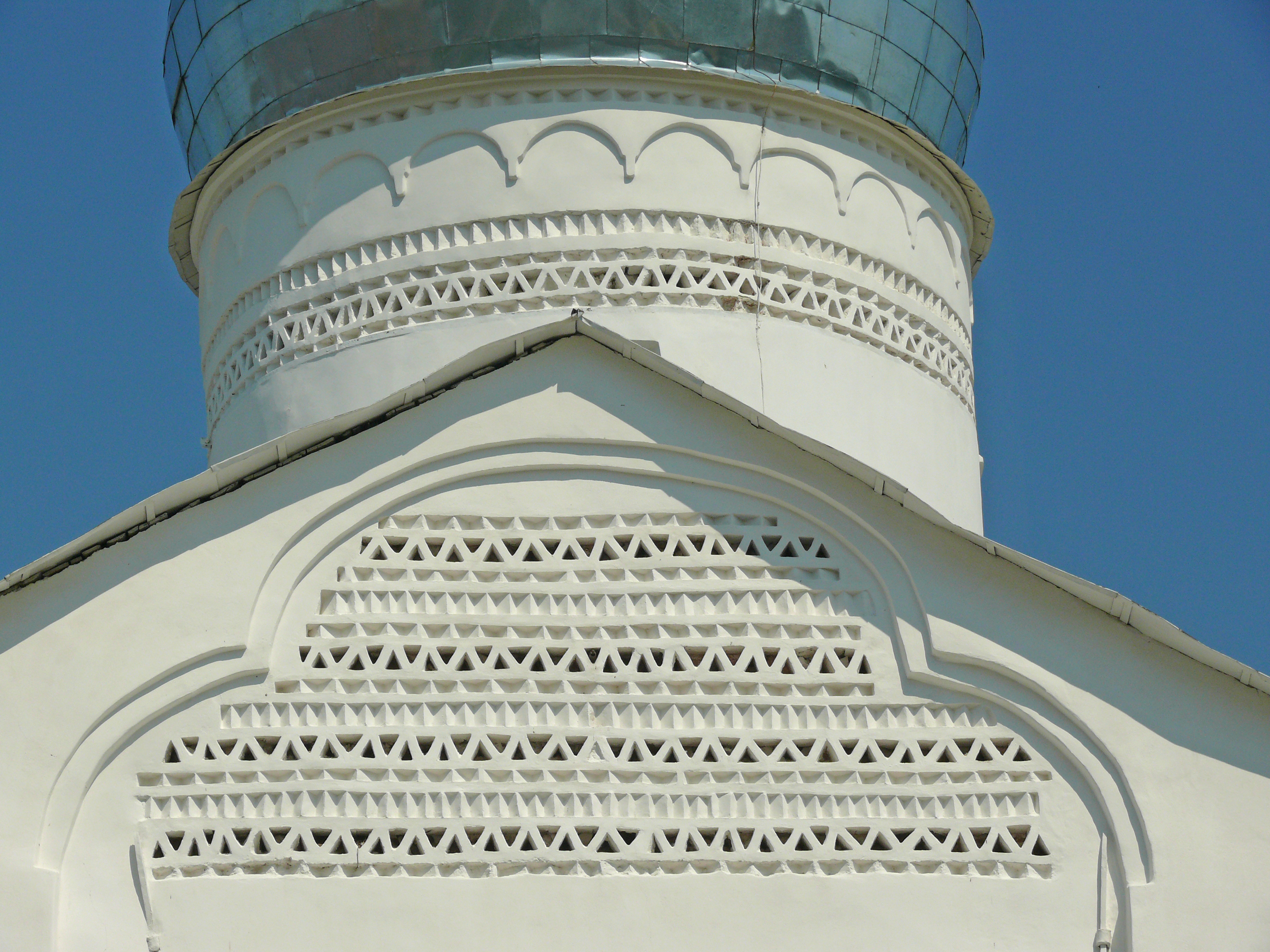 The decoration on the wall of Dmitry Solunsky churche. Veliky Novgorod, Russia